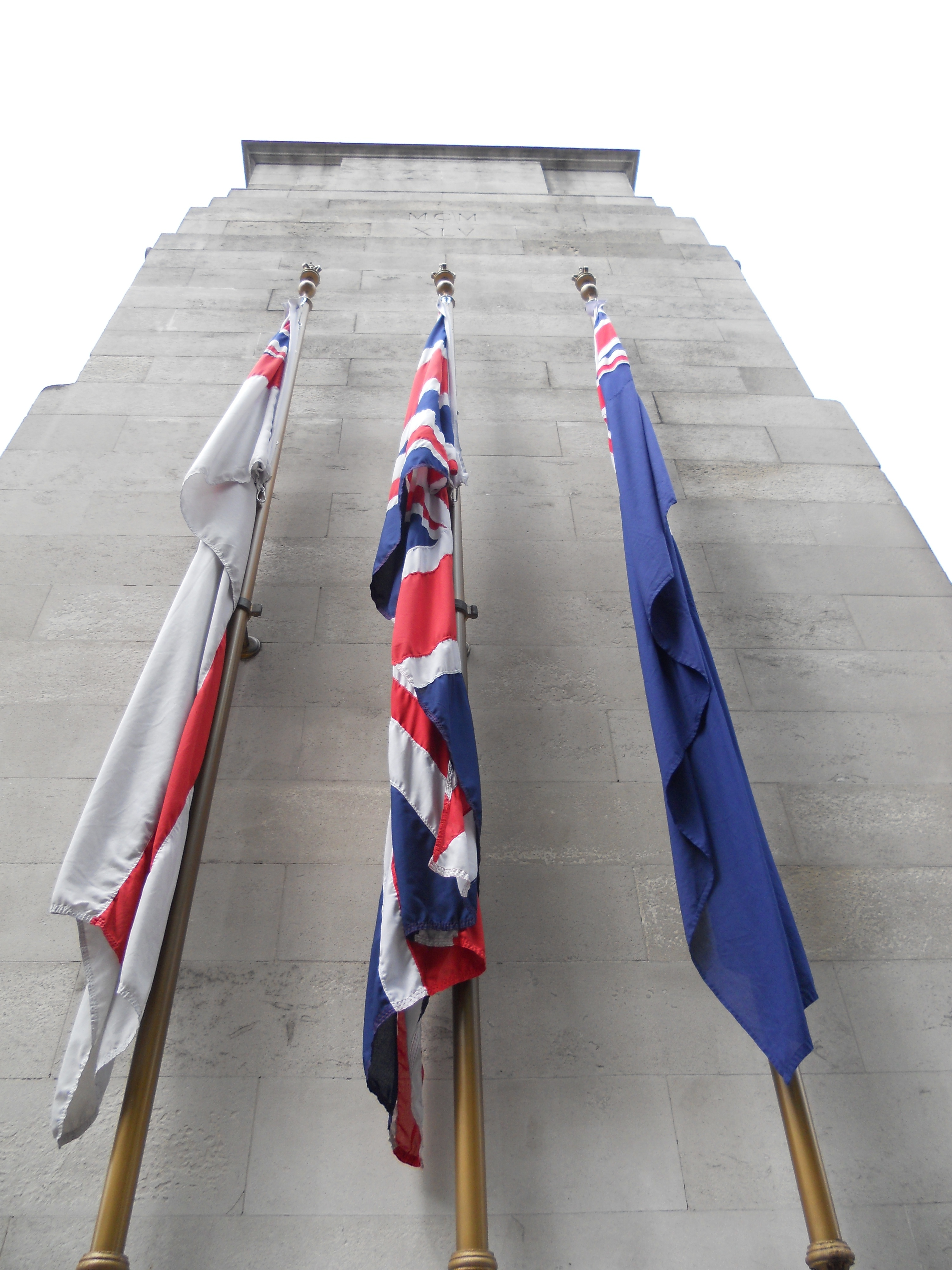 The Cenotaph, Whitehall, London. Part of a series taken from different angles.